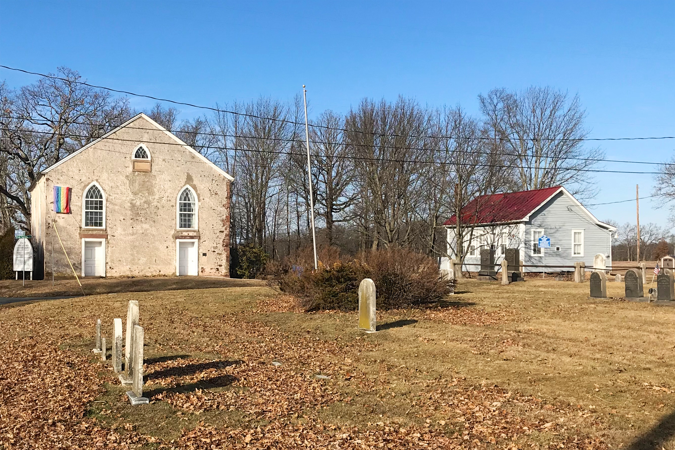 The Old Stone Church next to the Oak Summit School in Kingwood Township, New Jersey. The Presbyterian church cemetery, Oak Summit Cemetery, established 1754, is in the foreground. The cemetery is not listed on the NRHP listing for the church.